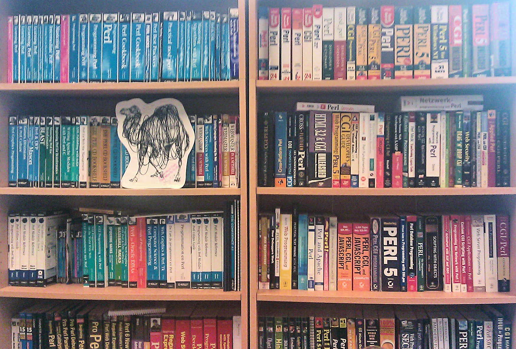 Perl bookshelf at FOSDEM 2013